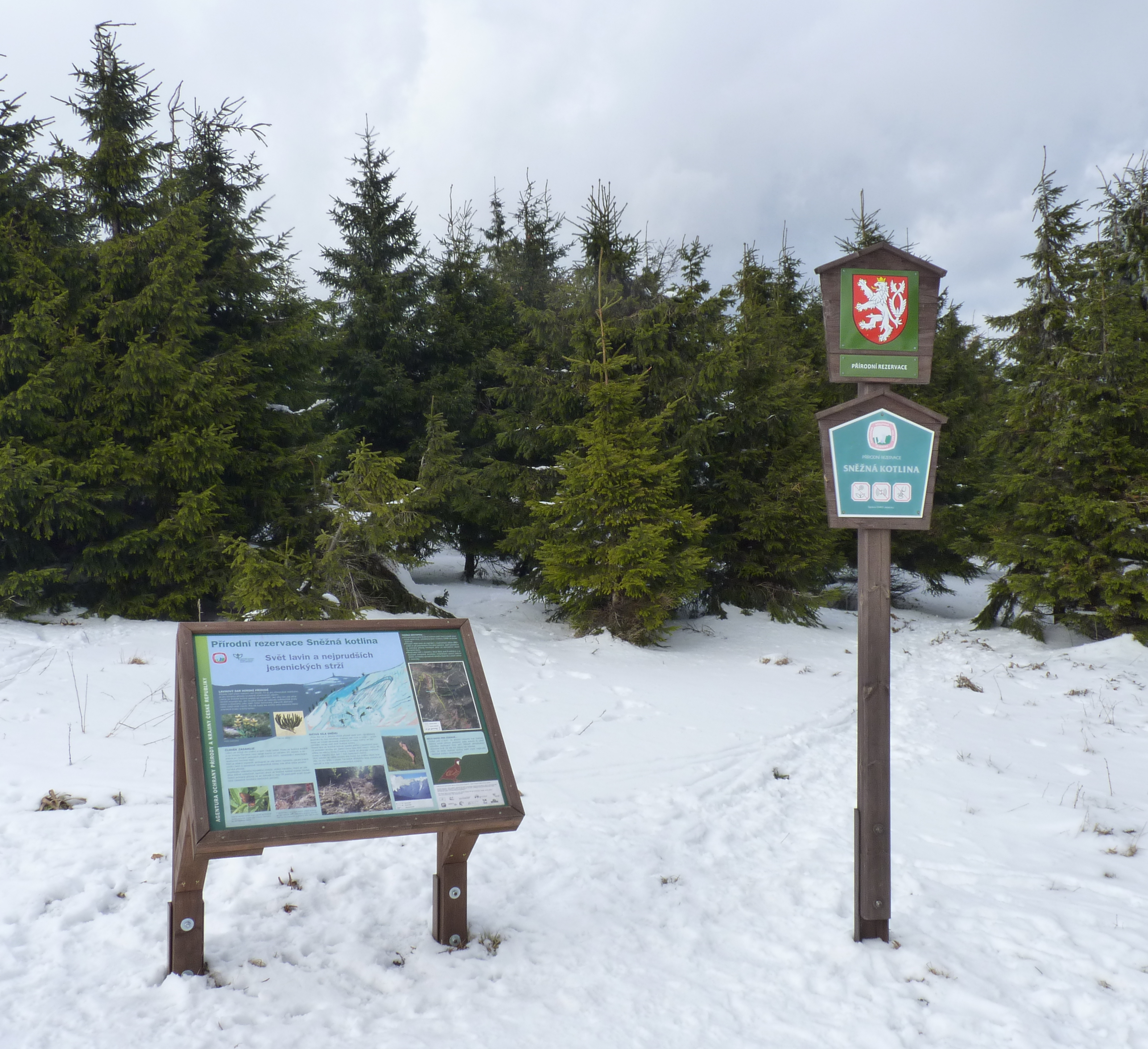 Nature reserve Snezna kotlina, Jesenik District, Olomouc Region, Czech Republic Project: Chráněná území